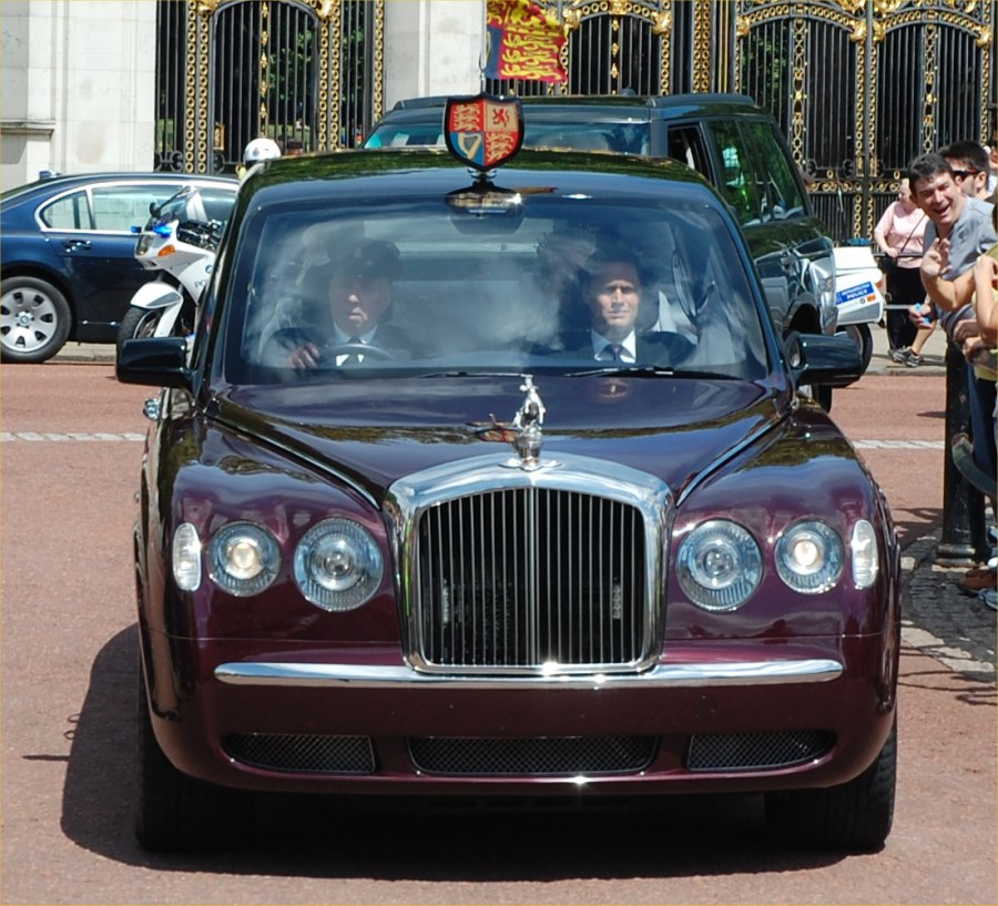 The queen arriving at buckingham palace